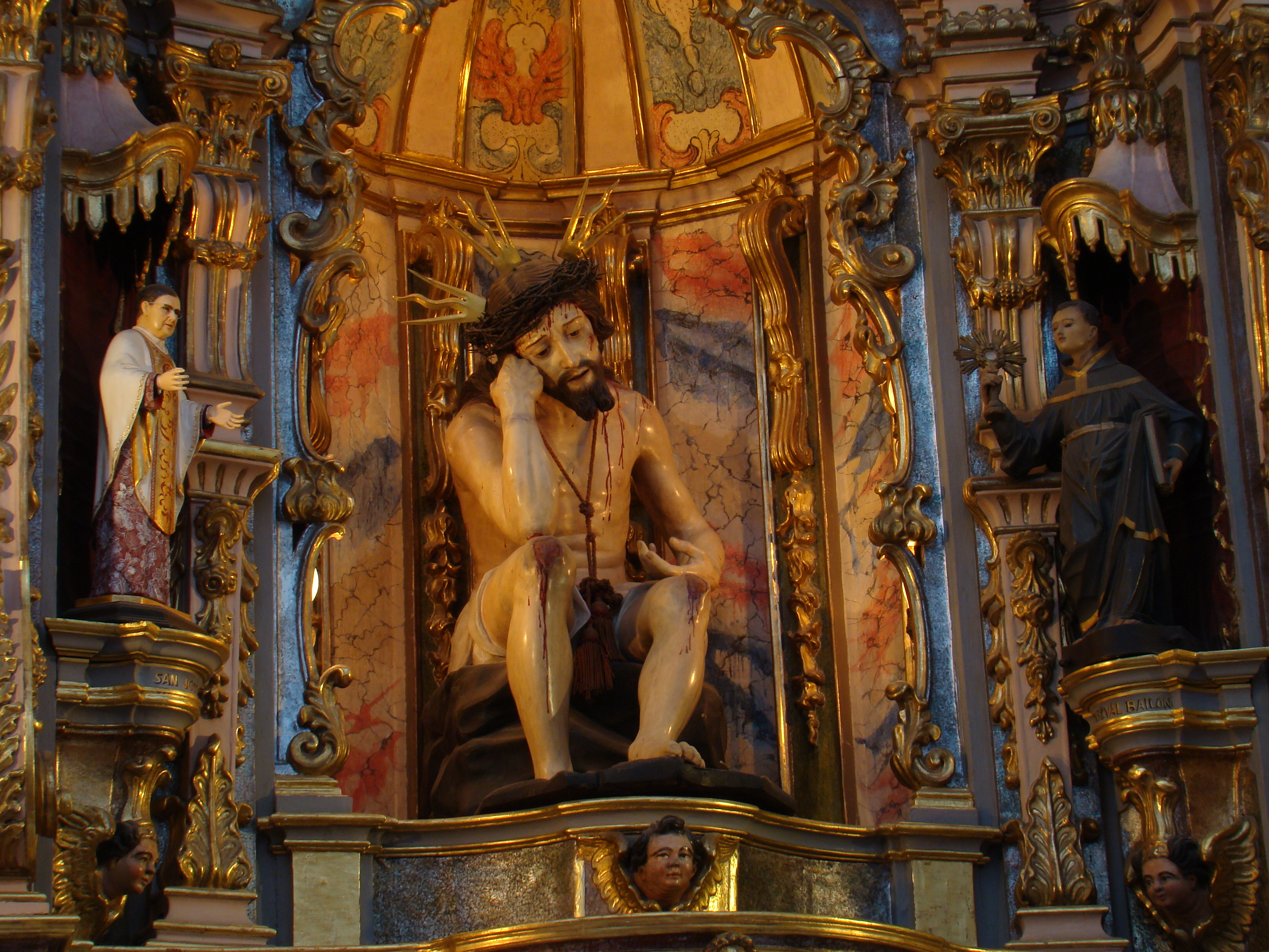 Buenos Aires. Church of Nuestra Señora del Pilar in the suburb of Recoleta. Sculpture of the Ecce Homo located very near the entrance.